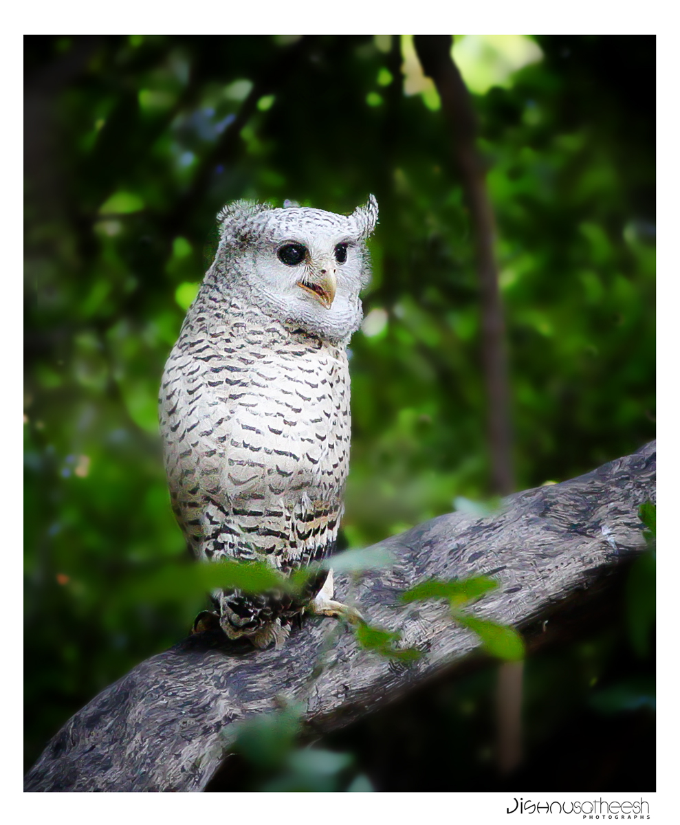 The spot-bellied eagle-owl, also known as the forest eagle-owl (Bubo nipalensis) is a large bird of prey with a formidable appearance. It is a forest-inhabiting species found in the Indian Subcontinent and Southeast Asia